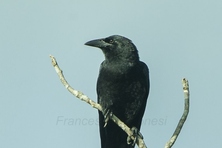 Cuban Crow (Corvus nasicus), cropped from original